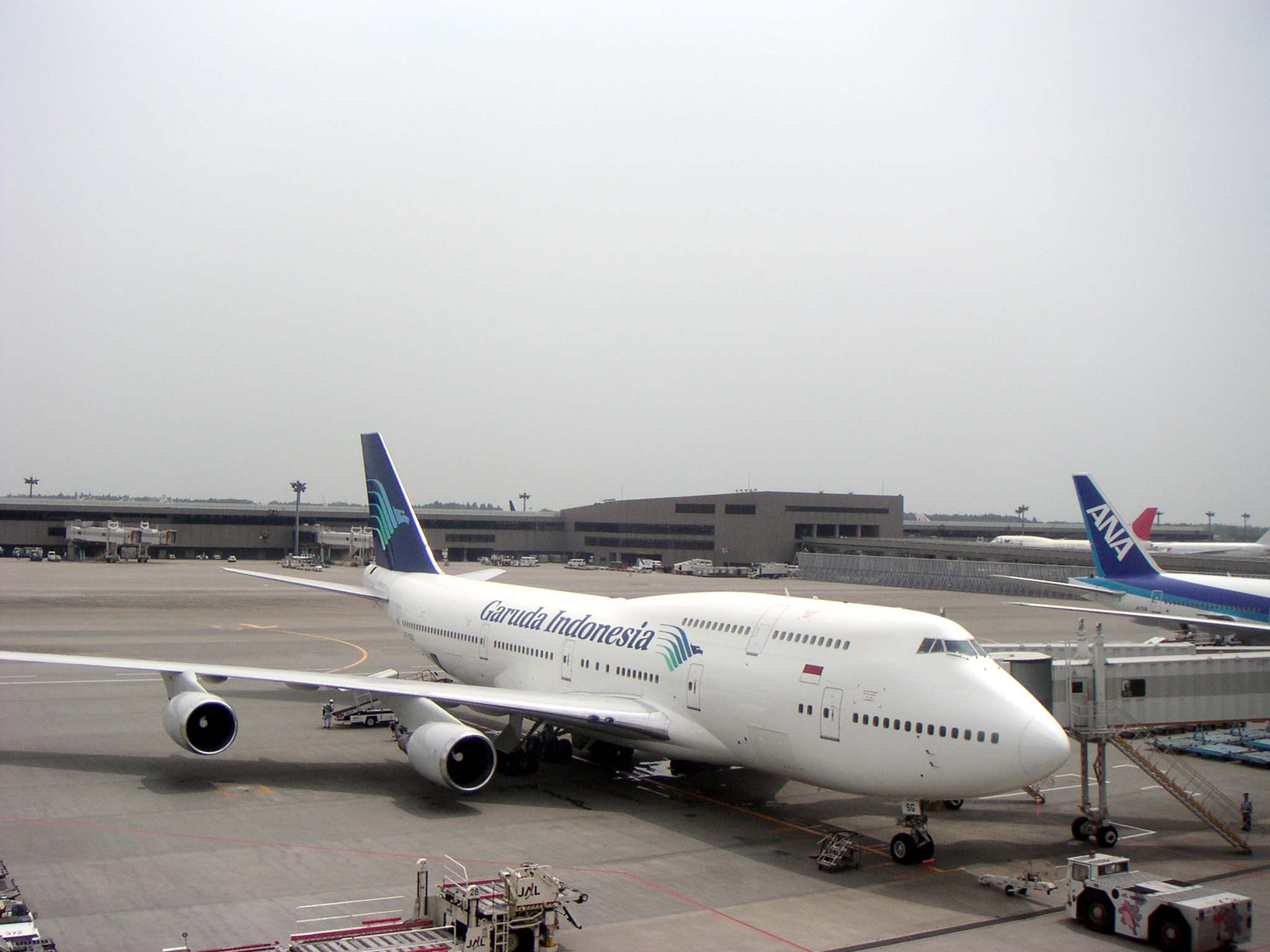 Garuda Indonesia Air Lines at Narita, Juli 2005